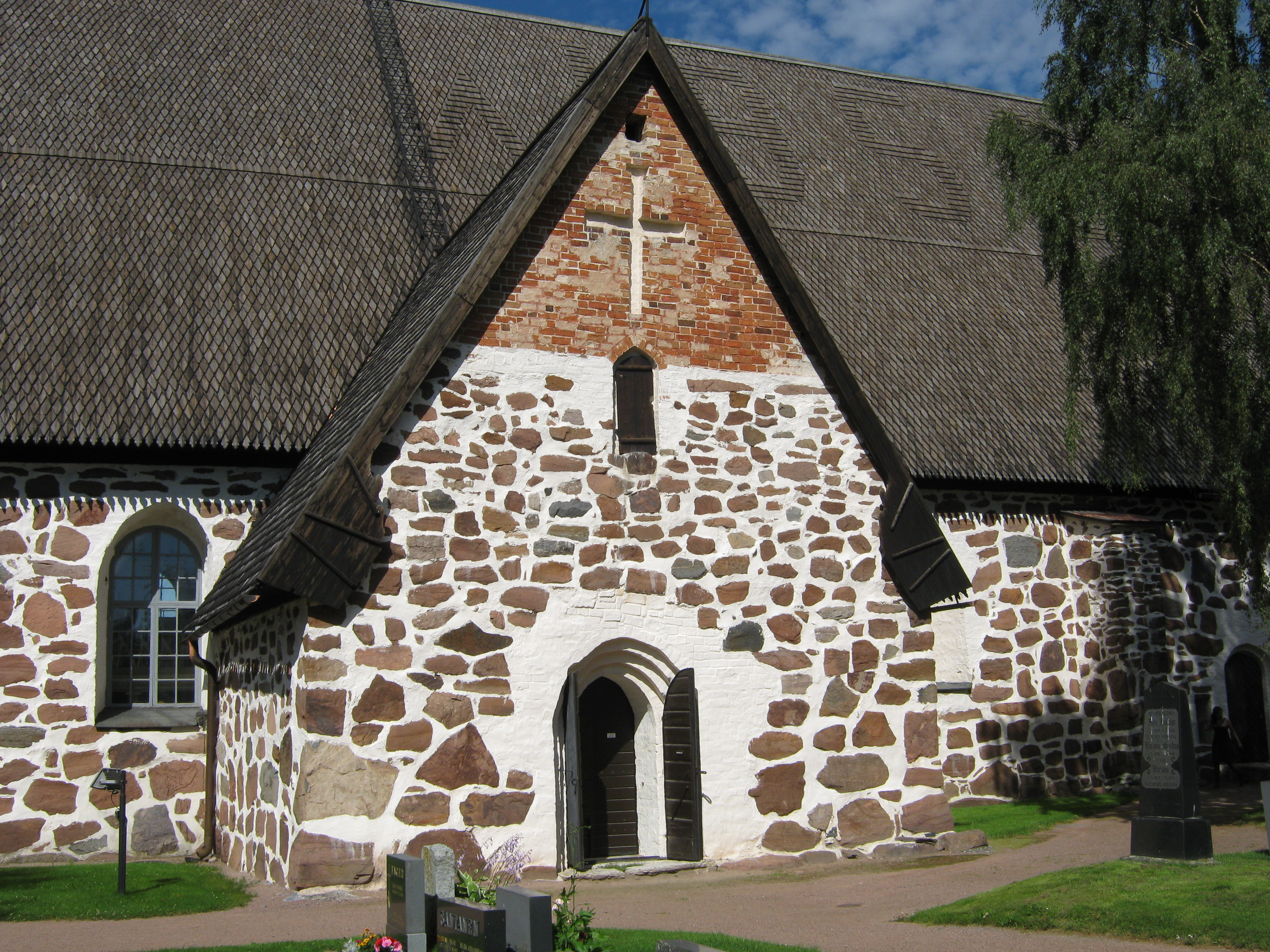 Weaponshouse of St. Olof's Church, Ulvila, Finland.